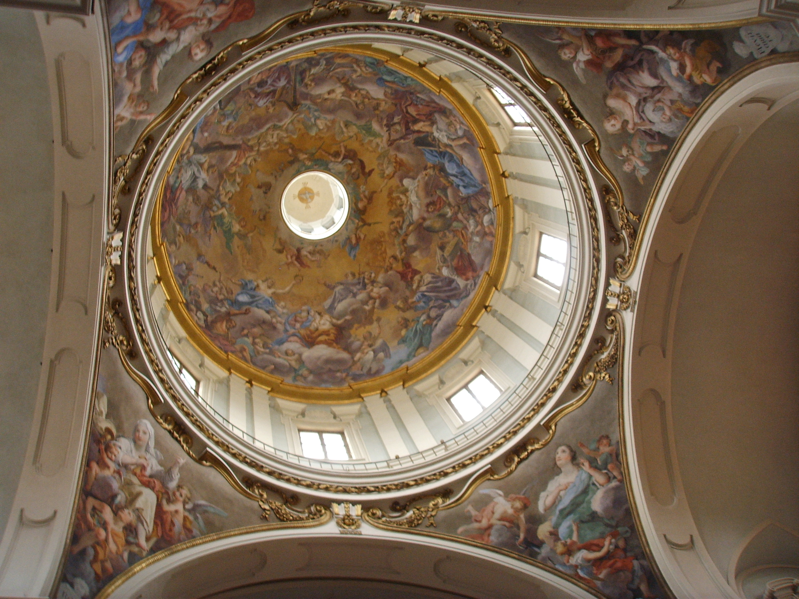 Dome interior frescos of San Frediano in Cestello church — Florence, Italy. Frescos by Antonio Domenico Gabbiani.